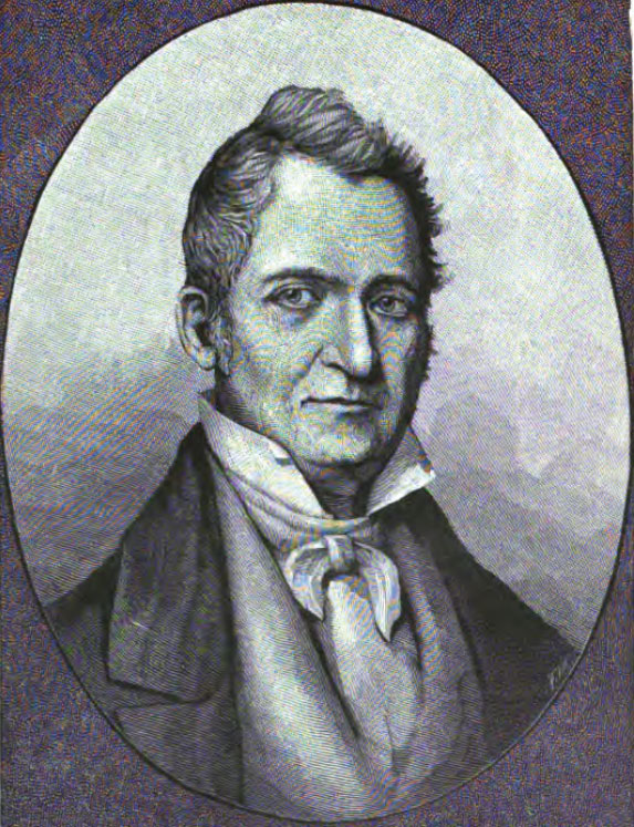 Kentucky Congressman Benjamin Hardin